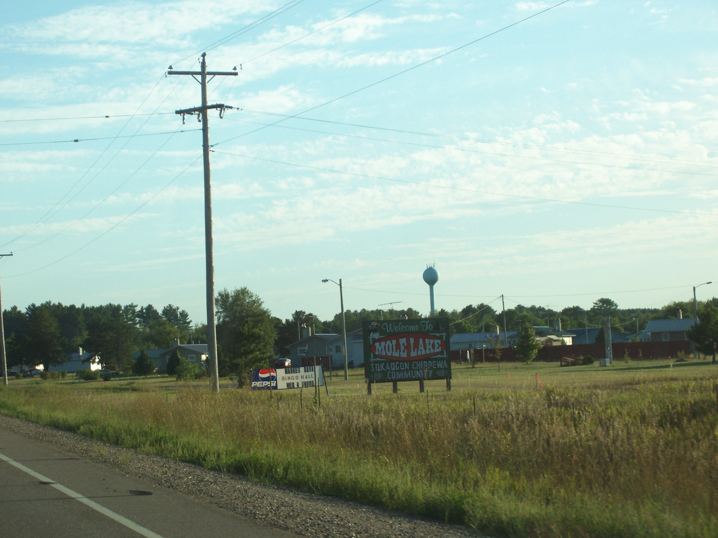 Looking south at the welcome sign and houses in Mole Lake, Wisconsin on Wisconsin Highway 55.